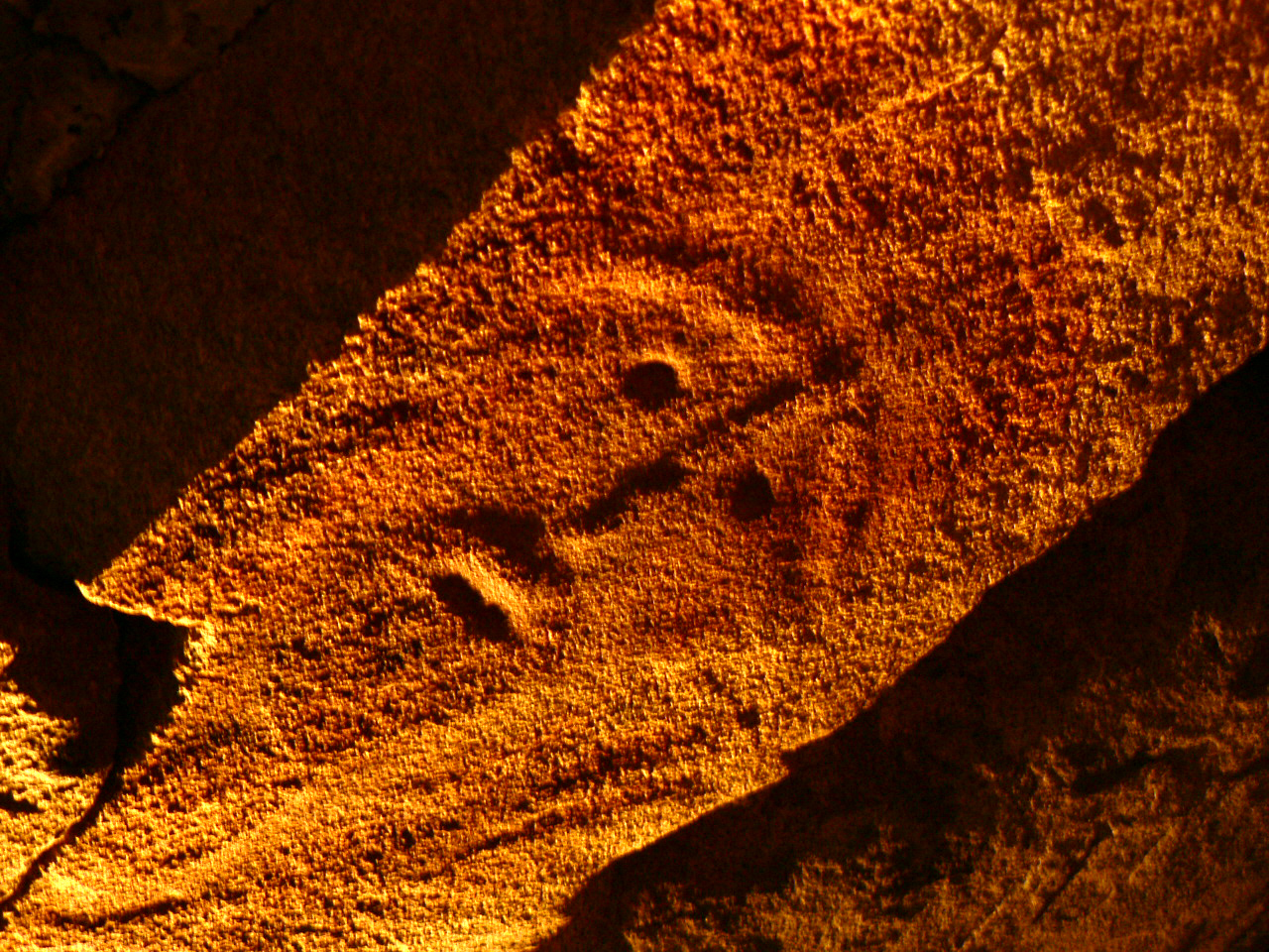 A carving on the ceiling of Le Dehus passage grave half a mile from Bordeaux Harbour on the Channel island of Guernsey. The photograph was taken in artificial light provided by an electric lamp nearby (the monument is open to the public during daylight hours). Please compare this image with a photograph of the same carving taken at long exposure in natural light from the open doorway to the tomb (the photograph should lie next to this image in the wikimedia category Prehistoric art). Although this carving looks crudely done at first glance, when seen in natural light it might have been done by a Stone Age Da Vinci! Is it truly Neolithic? I am not a Guernsey archaeologist. Finds from the tomb were dated between 3500 and 2000 BC.